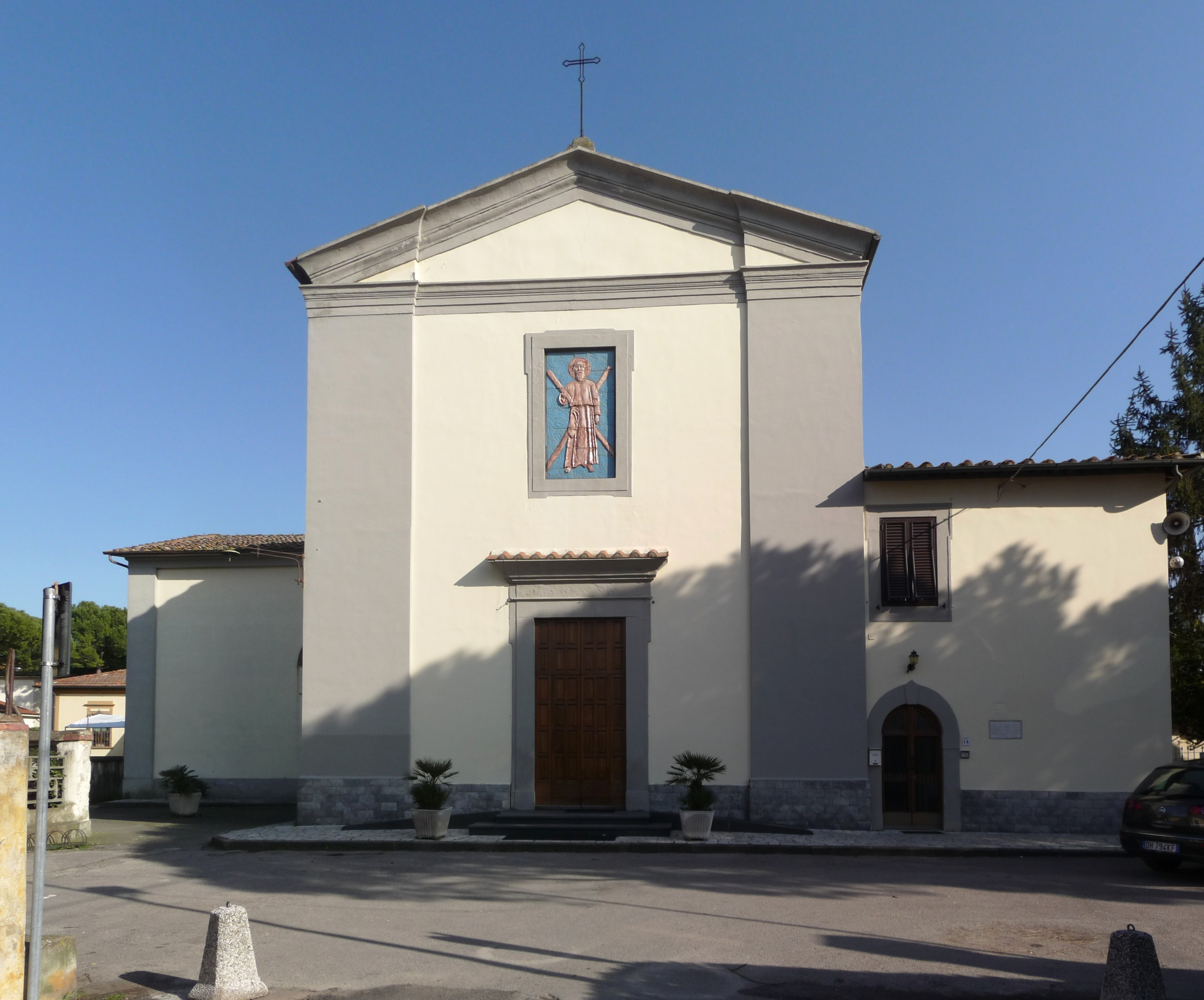 Chiesa di Sant'Andrea, Fornacette, Calcinaia (PI), Italy